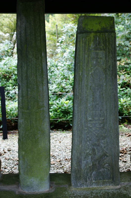 Kilberry Sculptured Stones, Kilberry, Argyll and Bute, Scotland. Grave stone (on the left) and cross shaft (on the right)